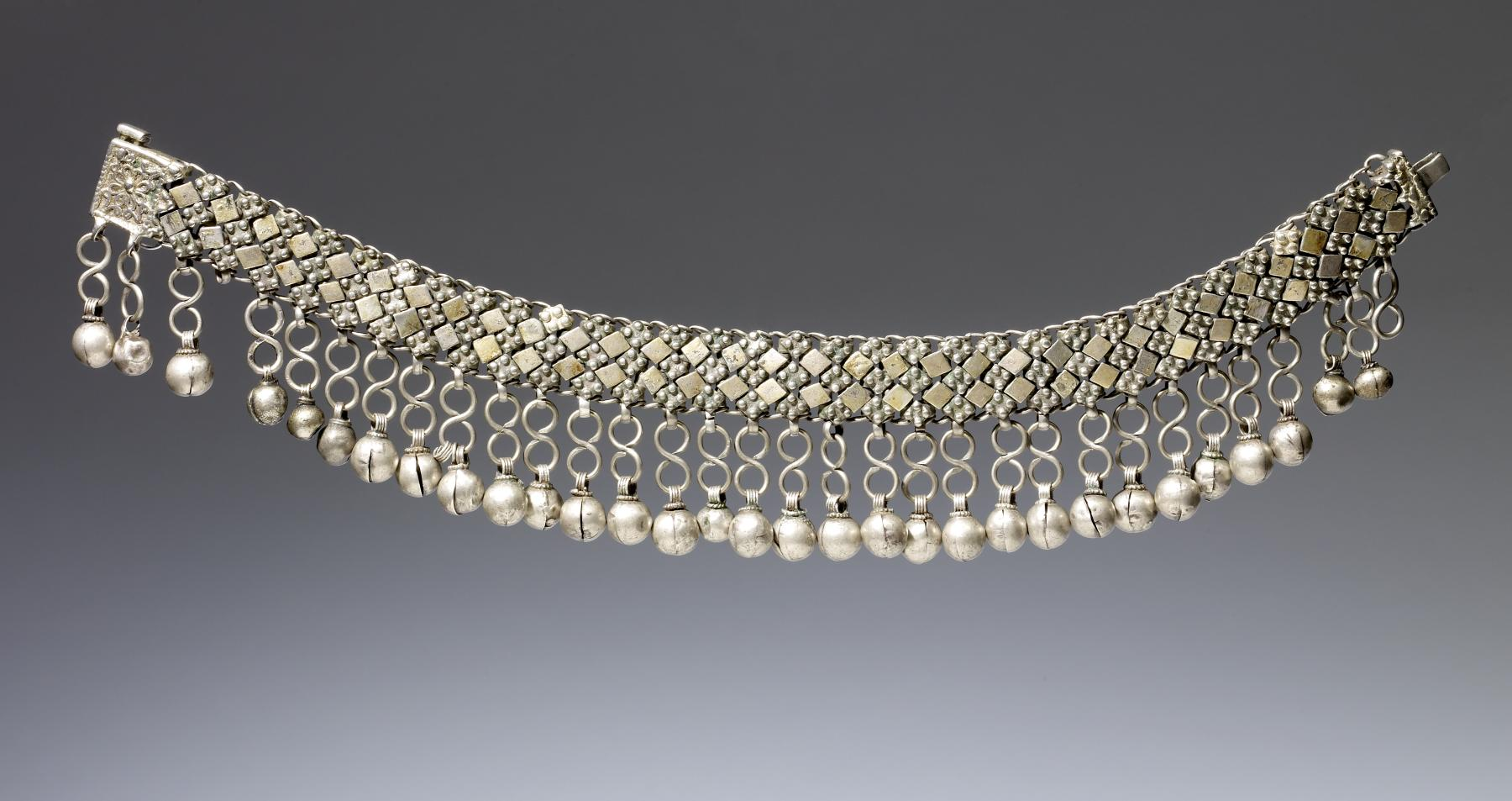 The close-fitting necklace consists of a broad chain, which combines square plaques with four-ball décor and originally green enamel, and those with a flat, gilded surface. The basic motif of series has three vertical arranged plaques with and two without décor. The ornament on the rectangular clasp combines a central rosette with double-volutes in the corners. The necklace has thirty-three loops with thirty-two preserved pendants with ball-shaped dangles. On the back of the clasp is an Arabic stamp with the name of the ruler: al-Mansur. Al-Mansur Ali I ruled from AH 1189 to 1224 (AD 1775-1809). In addition, there is the name of the silversmith engraved in Hebrew: xxx Sana"ani. The first name of the silversmith is lost, but it is mentioned that he and his family come from Sana"a'.